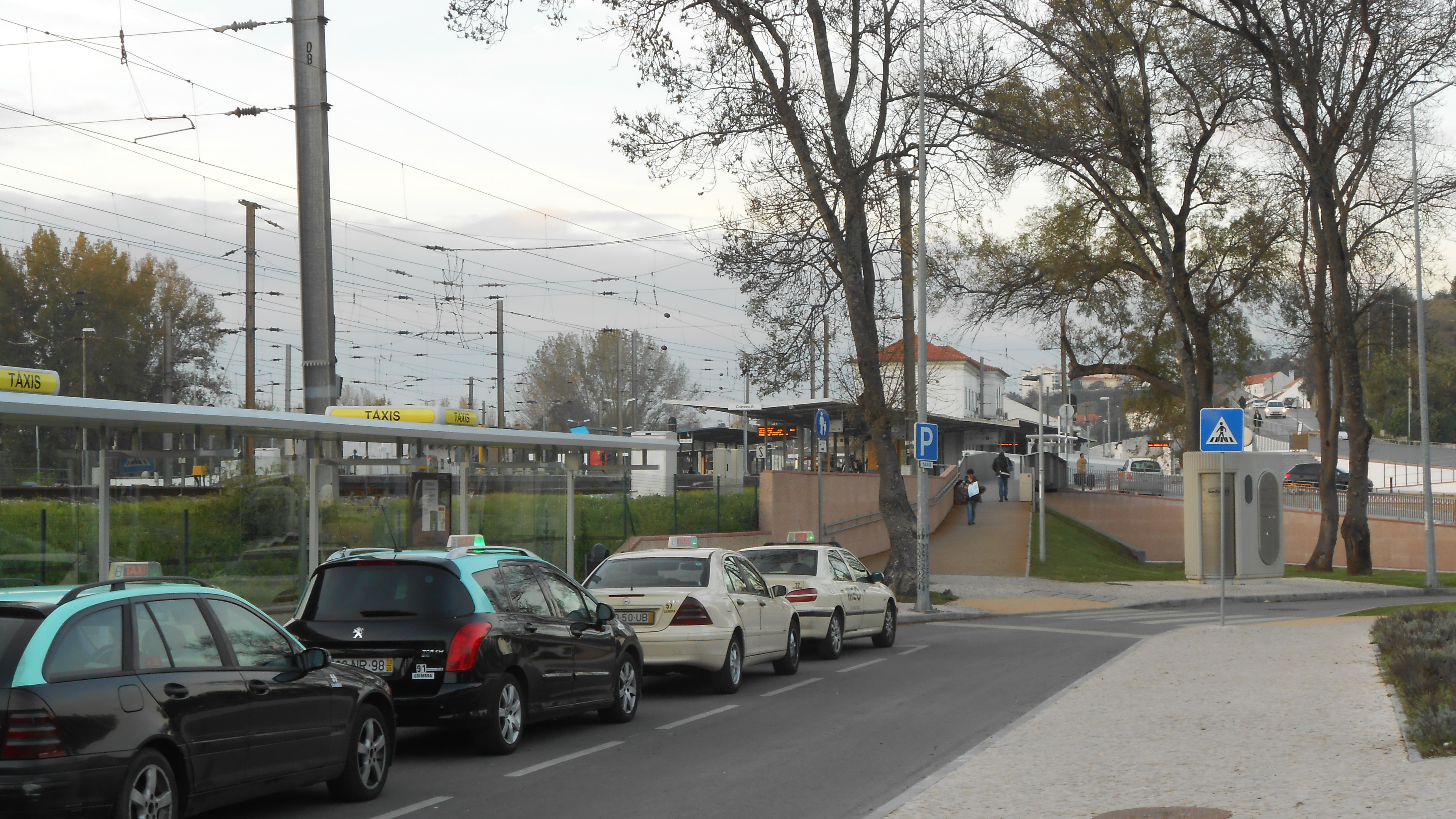 New taxi stand at Coimbra B train station, seen in november 2015.